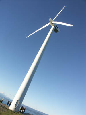 Windturbine.jpg - photo taken and uploaded by Paul Moss, Photographer, Artist, Paul Moss Photographer Artist NZ